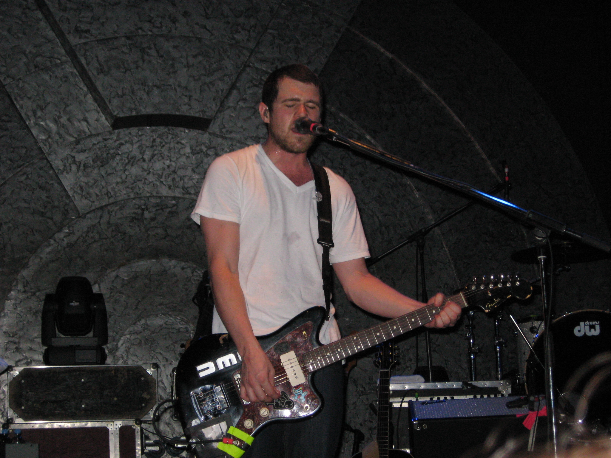 Jesse Lacey performing as part of the rock band Brand New on 4 February 2008 at the Metropolis Fremantle in Fremantle, Western Australia.